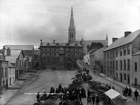 Market Square, Letterkenny, Co. Donegal, Ireland; between 1880 and 1900